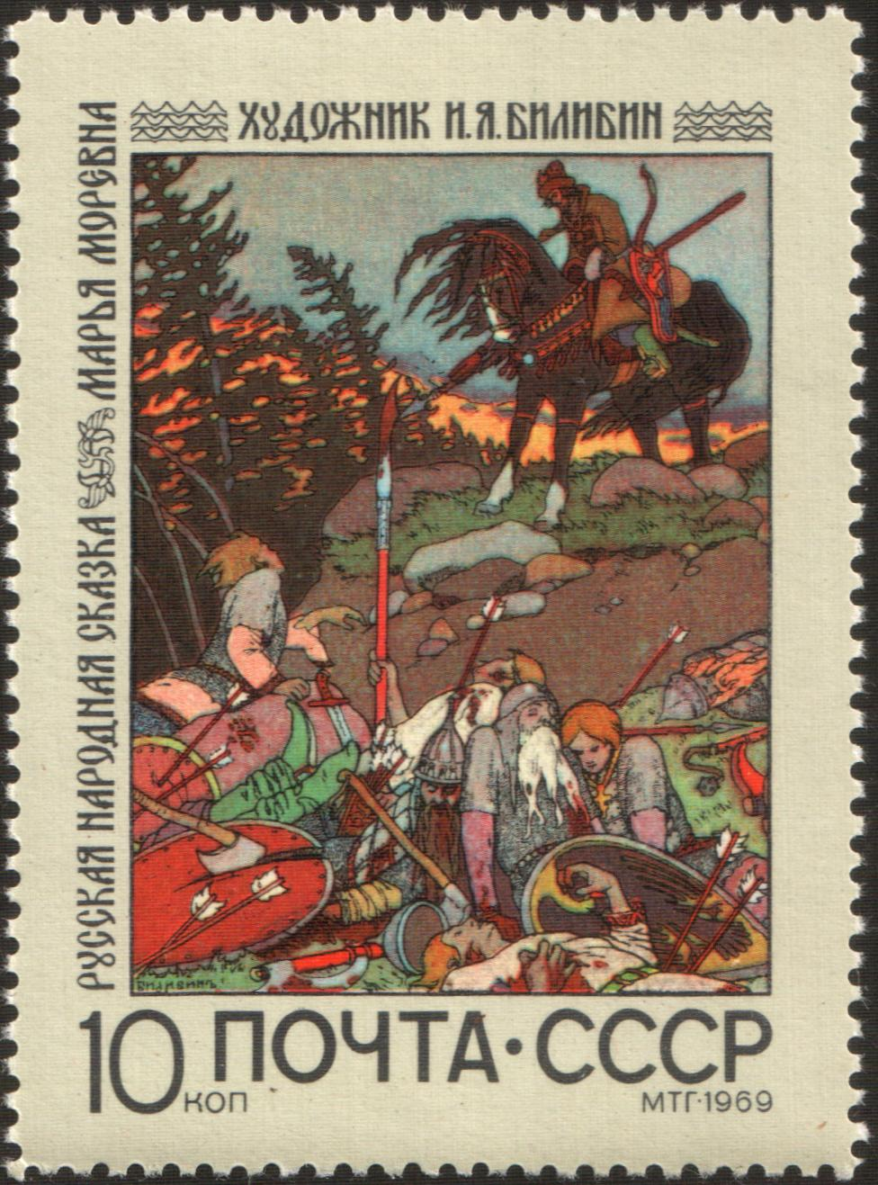 USSR stampː Marya Morevna (Folk Tale). Seriesː Russian Fairy Tales